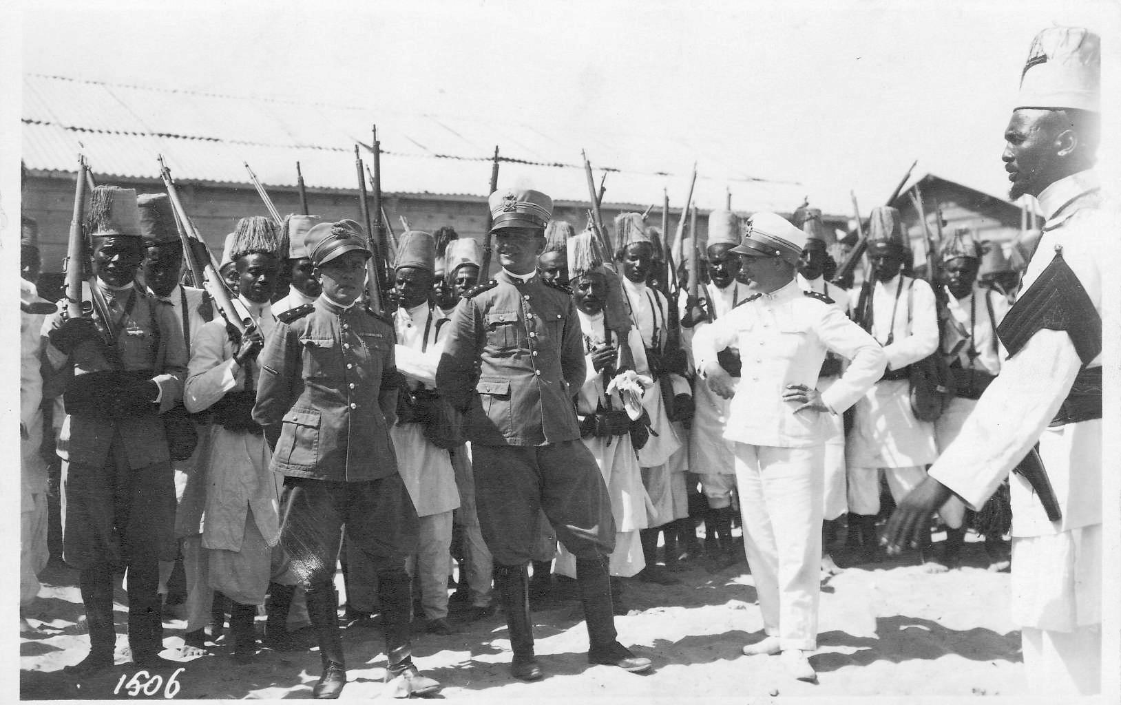 Lusignani al comando del XXVI Battaglione Eritreo.